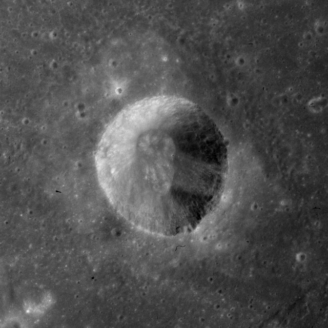 Sulpicius Gallus, Mare Serenitatis, on the moon. Camera Altitude is 112 km, Sun Elevation is 45° (from right).